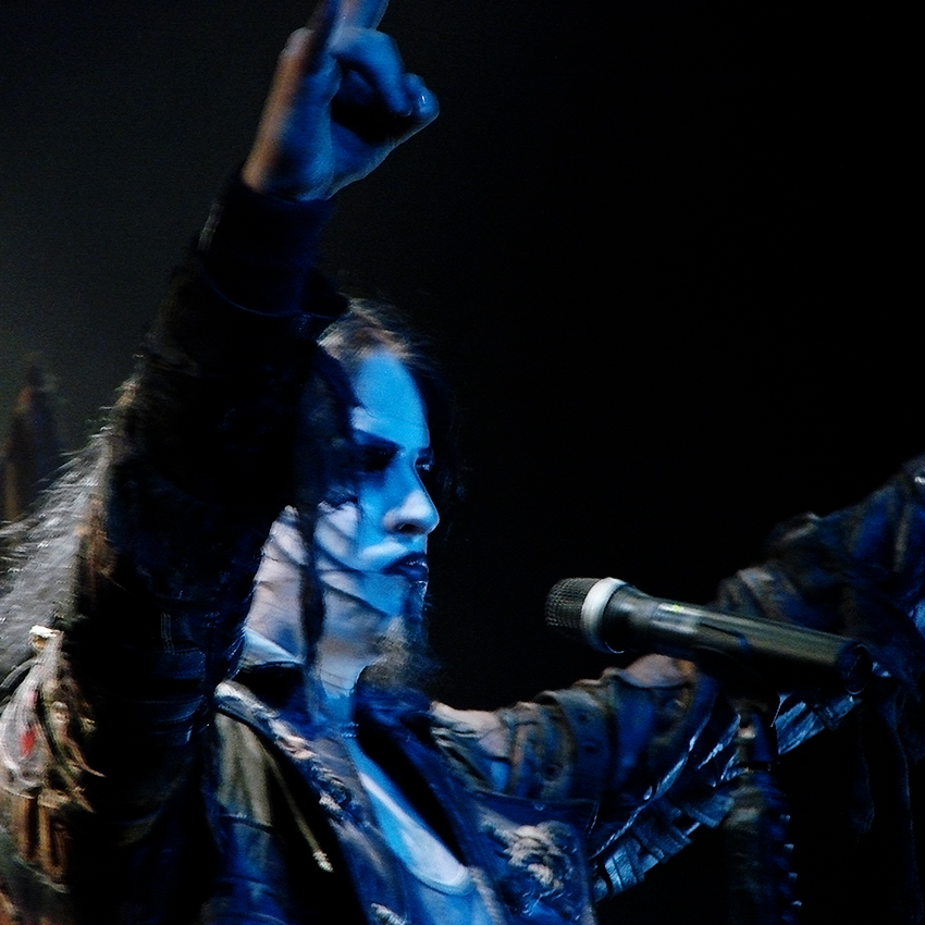 Dimmu Borgir,the Black Metal band from Norway, during their concert in Paris, the 4th of October 2007. Vocals: Shagrath.